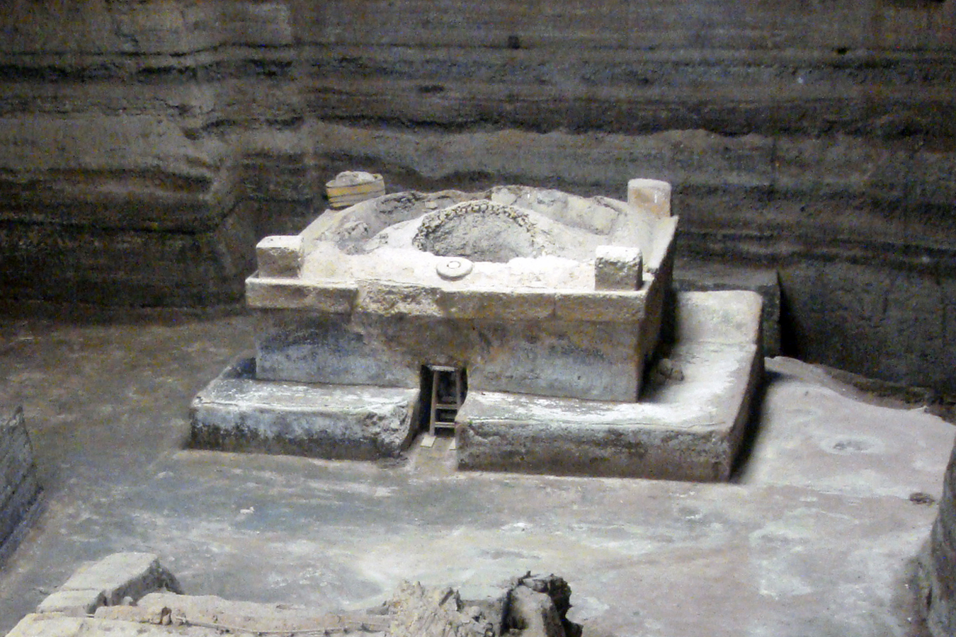 Remains of maya village of Joya de Cerén buried by volcano eruption around A.D. 600 (El Salvador). Tamazcal (Structure 9) excavated at Area 2.